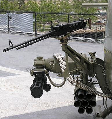 The armament of a UH-1C gunship.